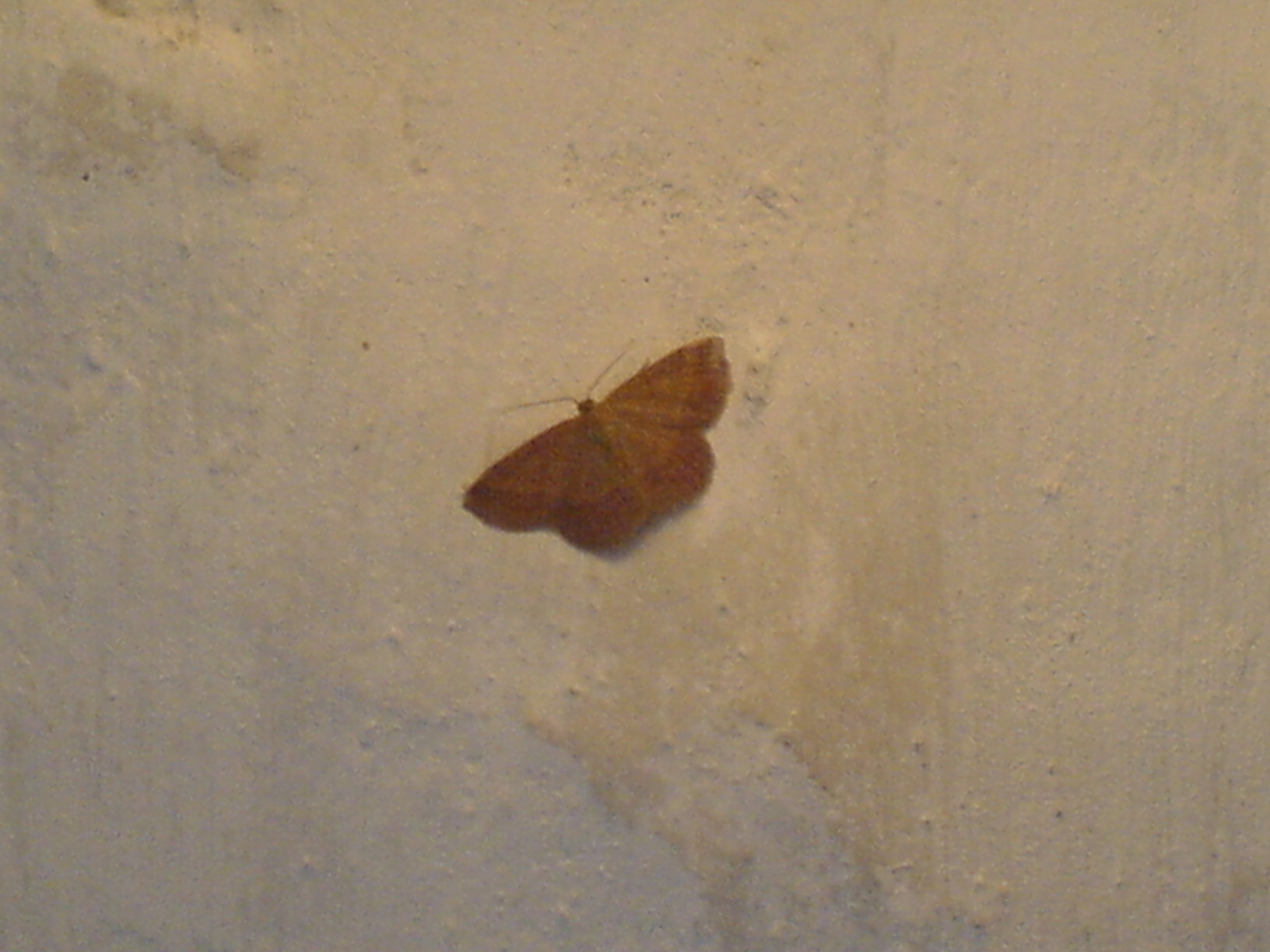 Epione vespertaria in Marosillye, Transylvania.